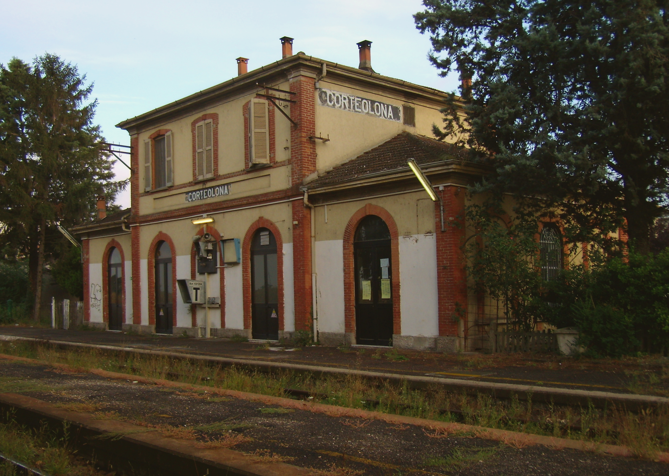 Railway station in Corteolona, Italy.